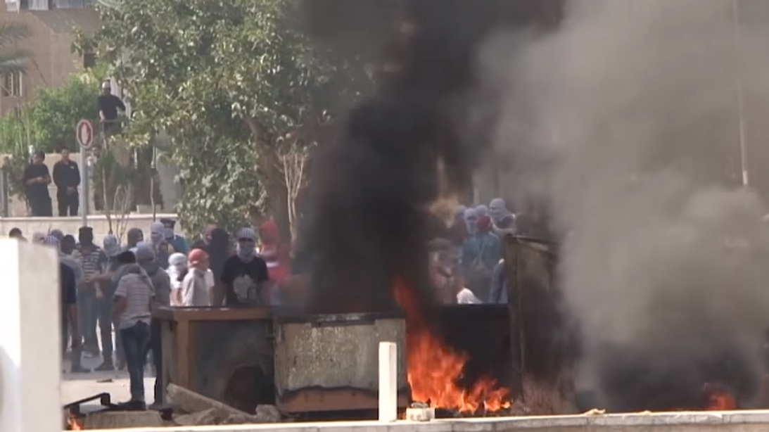 Near Beit El - north of Ramallah 10.10.2015